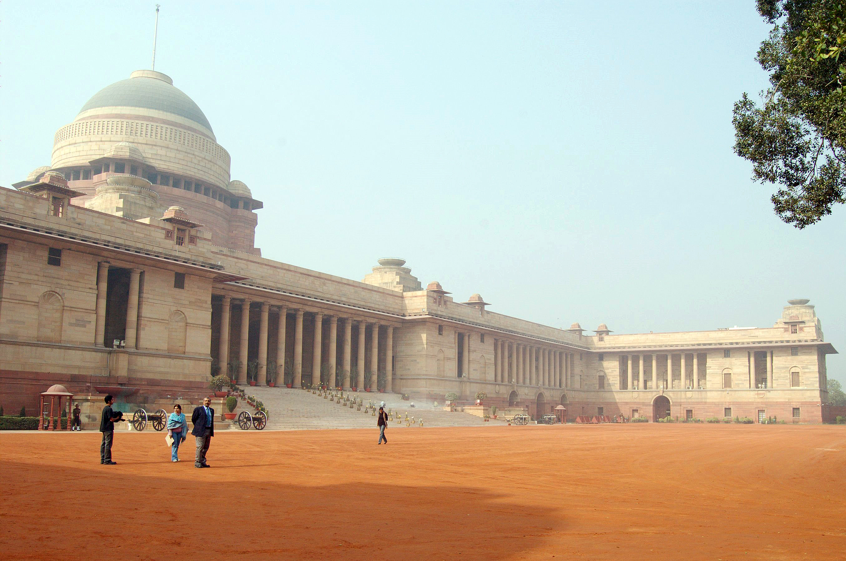 Rashtrapathi Bhavan